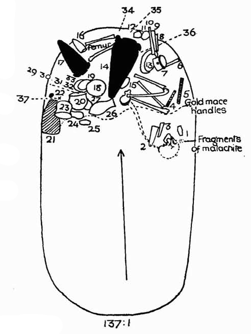 Tomb 137:1 at Sayala